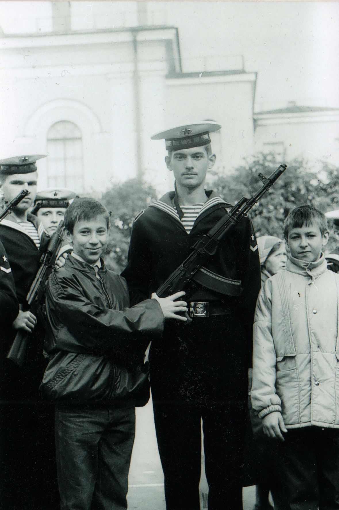 Naval Engineering High School named after V. I. Lenin, around 1992, Pushkin, Saint Petersburg.